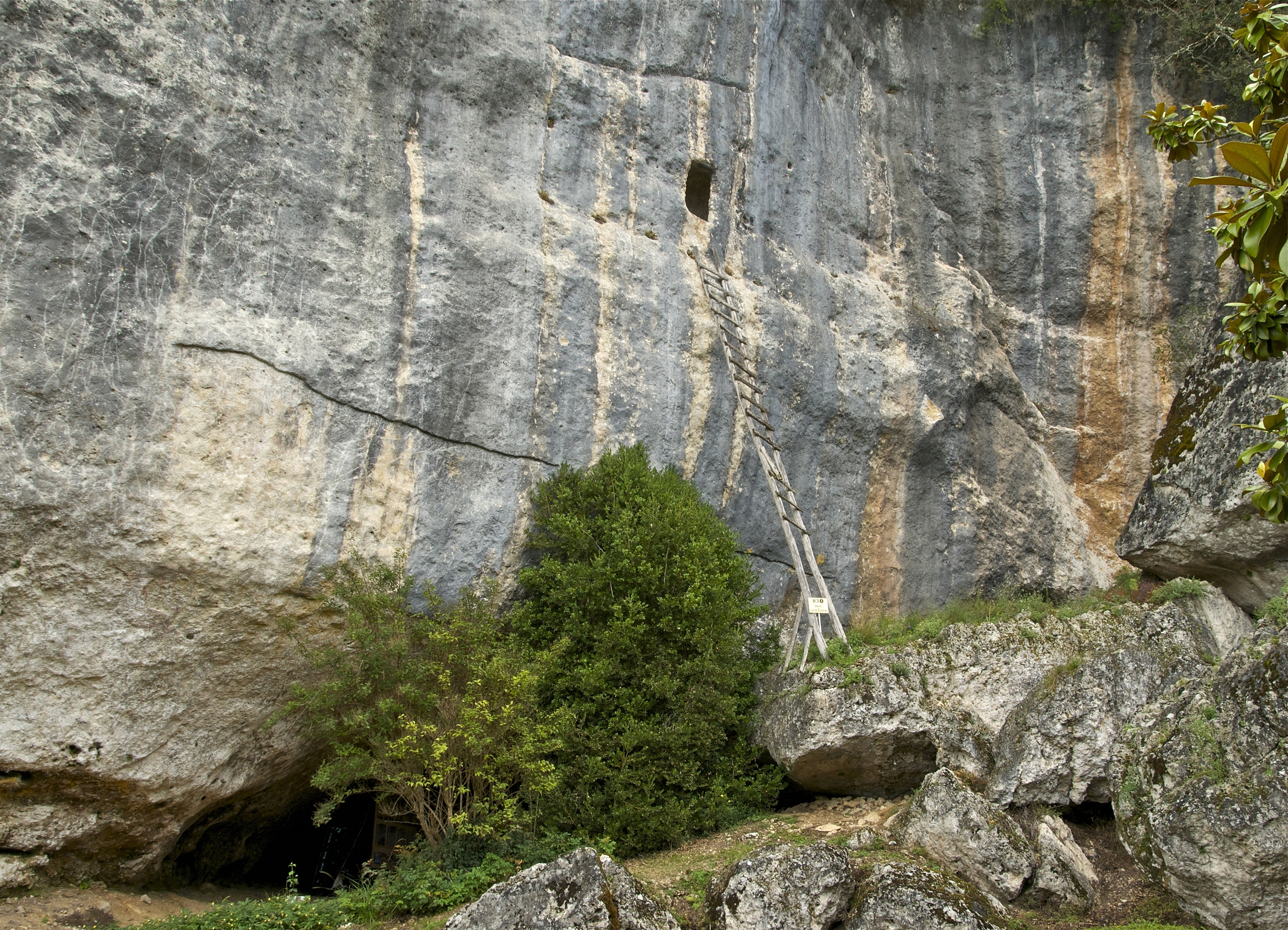 In the cliff, the prehistoric cave (magdalenian era, 15.000BP, below), and the medieval "watcher's hole" (above), Laugerie-basse, Les Eyzies de Tayac, Dordogne, France.